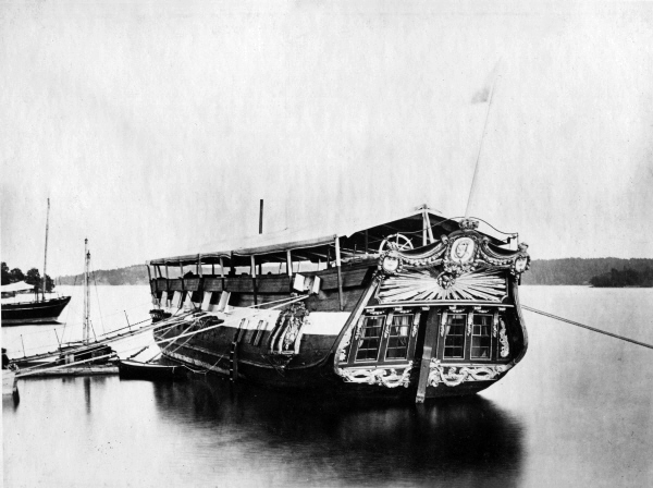 Amphion, Swedish turuma 1778-1884